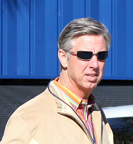 Detroit Tigers GM Dave Dombrowski, 2011.